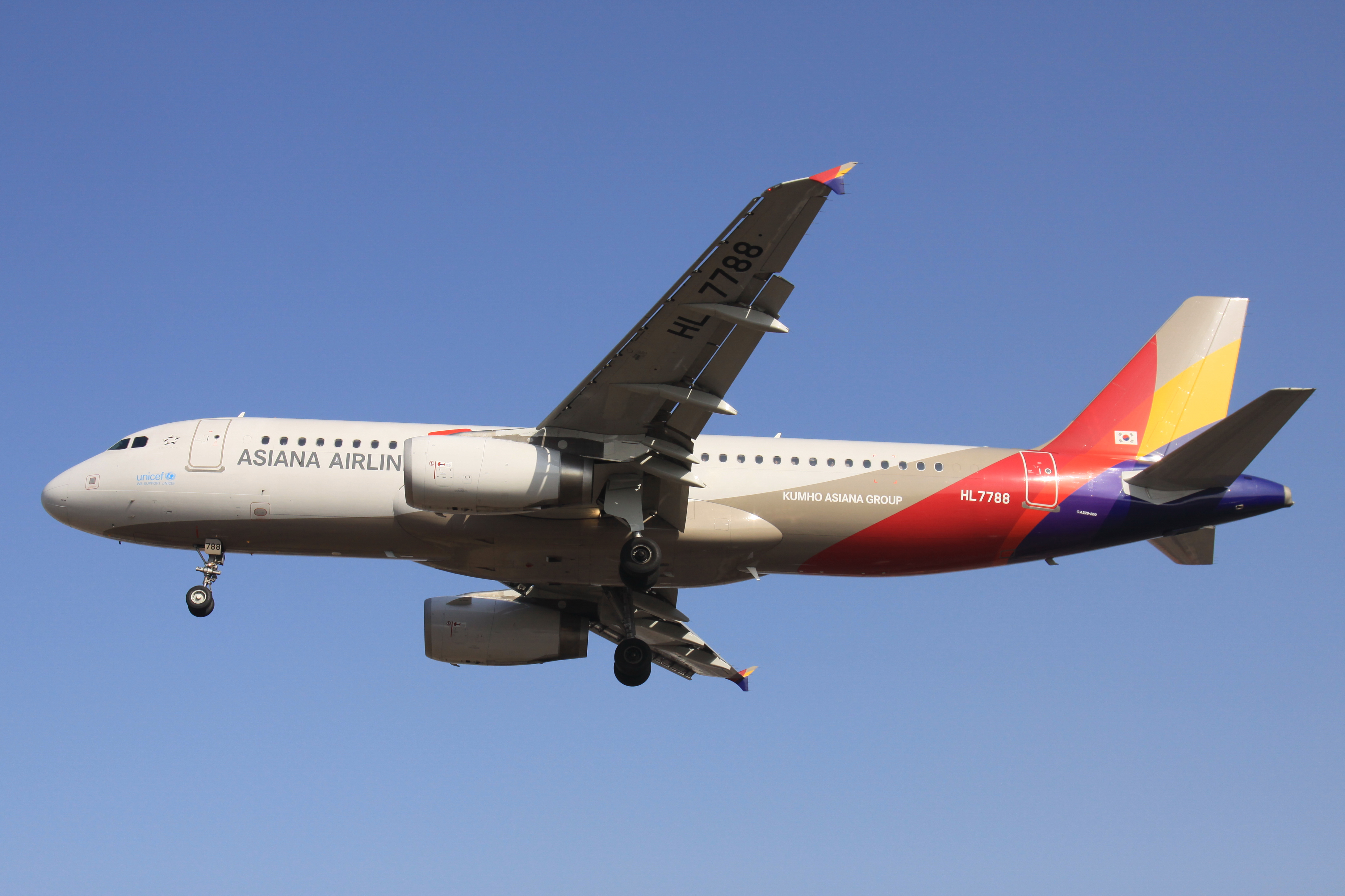 Final Approach to Dalian Airport Runway 28, Airbus A320-232, c/n:3873, Asiana Airlines